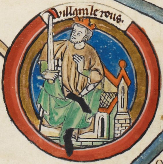 A portrait of William II, King of England depicted on folio 5r of Royal MS 14 B VI.